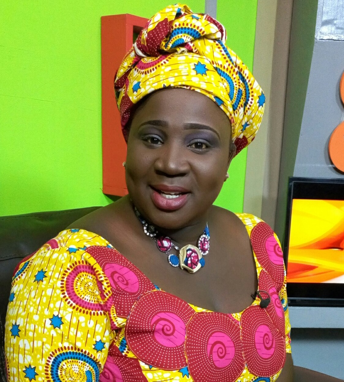 African woman in headgear